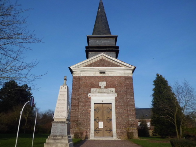 St George Church at Saint-Georges-sur-Fontaine (Normandy)